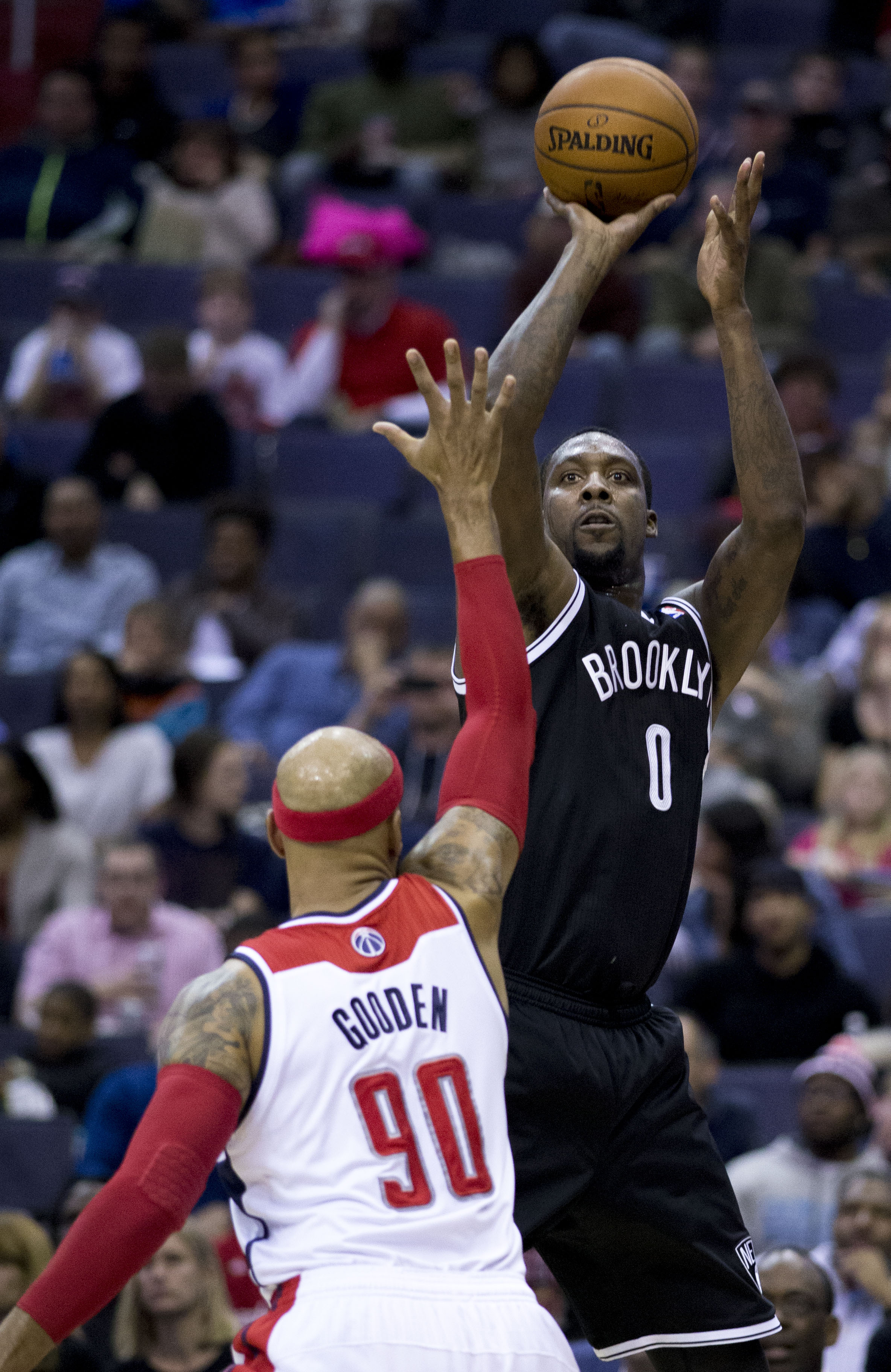 Andraw Blatche #0 of the Brooklyn Nets in a game against the Washington Wizards at the Verizon Center on March 15, 2014 in Washington, DC.